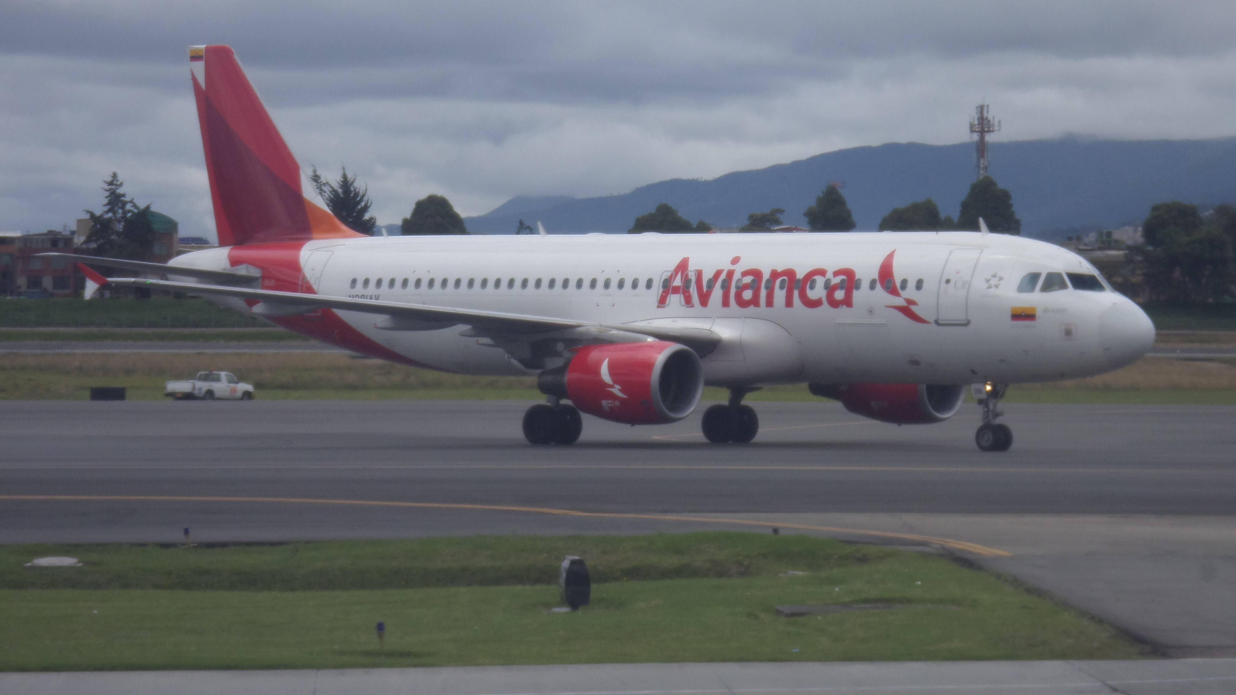 Aircraft at El Dorado International Airport